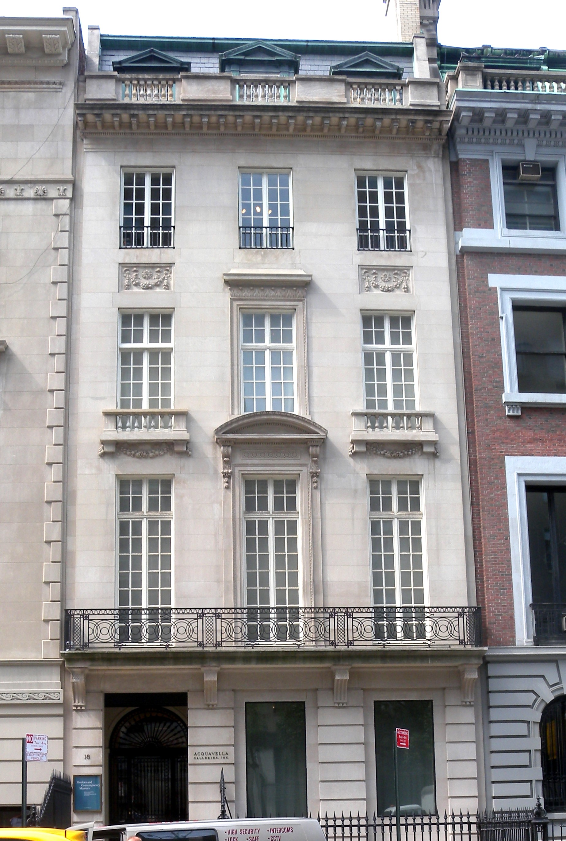 Looking south at Acquavella Galleries, 18 East 79th Street, NYC. This building was owned and operated by the Duveen brothers and afterr Joseph Duveen died in 1939 it continued to operate under that name until Norton Simon bought it with its inventory, see "Lock, Stock and Barrel: Norton Simon's Purchase of Duveen Brothers Gallery."